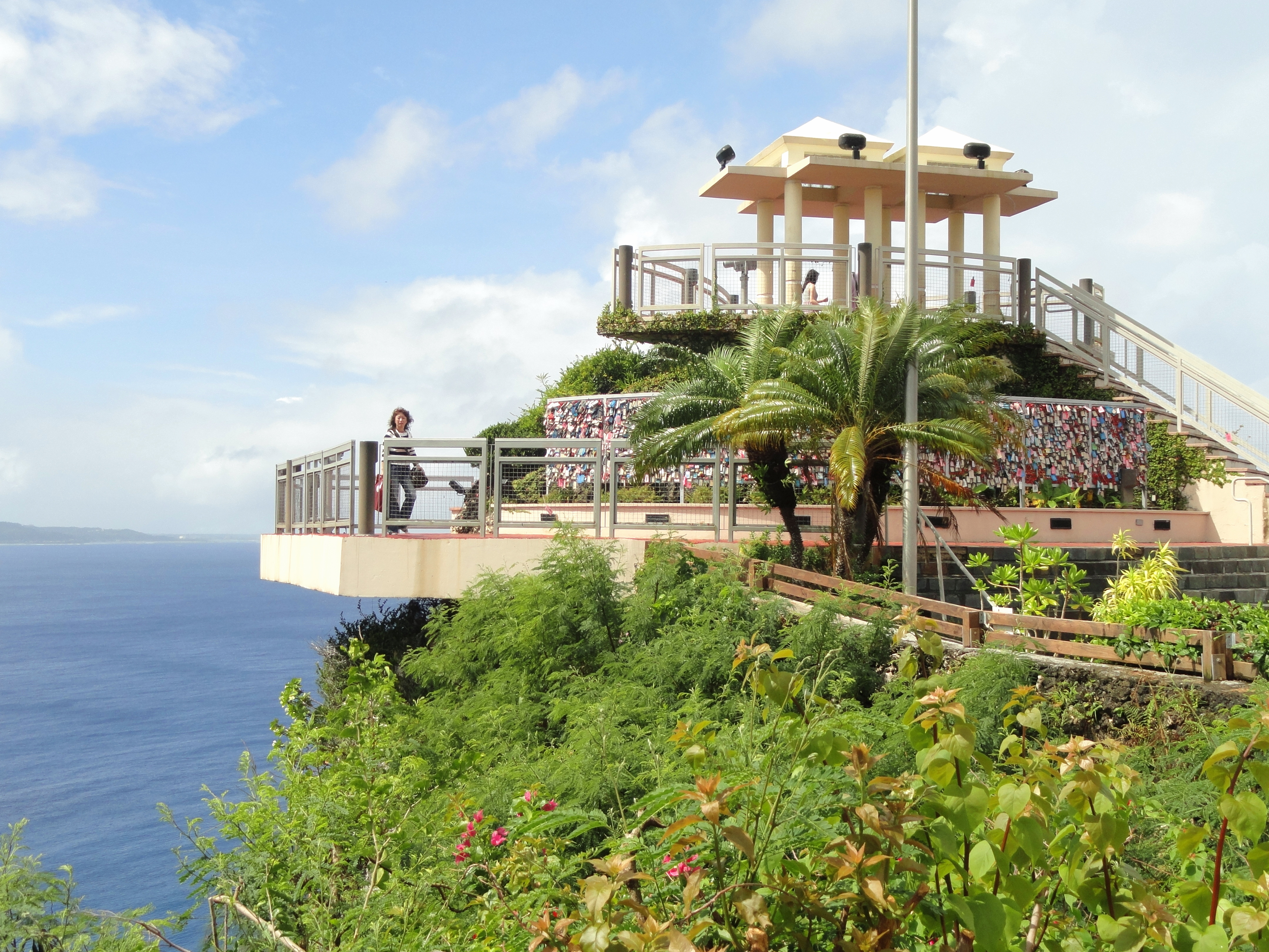 Puntan Dos Amantes (Two Lovers Point), north of Tumon Bay, Guam, USA. This site was designated a Registered Natural Landmark in 1972 by the US National Park Service.